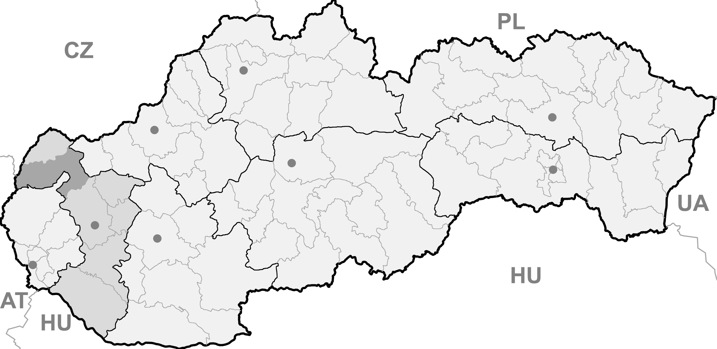 Map of Slovakia, Senica district and Trnava region highlighted